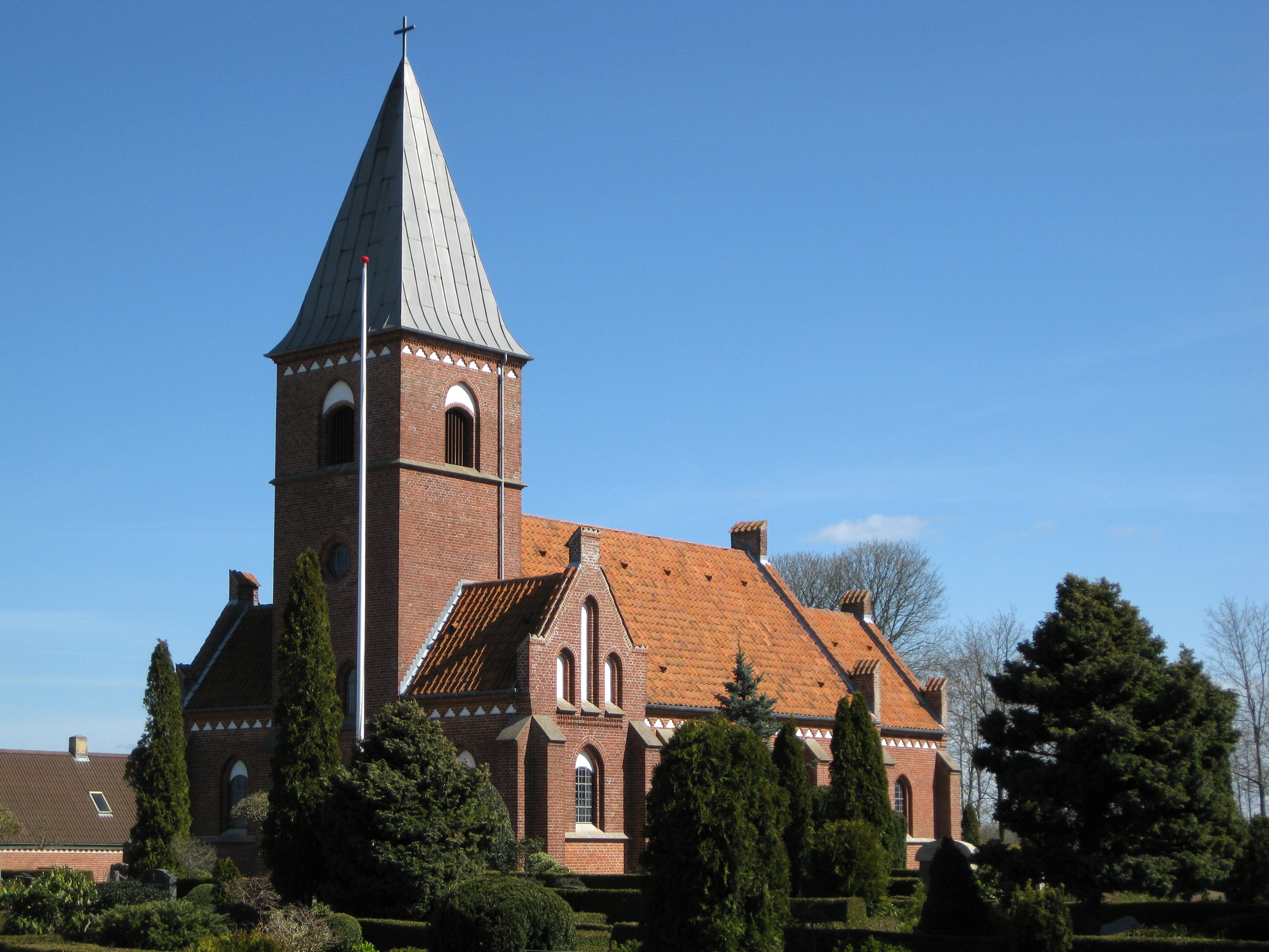 The church "Hjallerup Kirke" nearby the small town "Hjallerup". The church is located in North Jutland, Denmark.